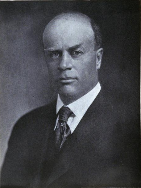 Andrew James Peters (April 3, 1872 – July 26, 1938)